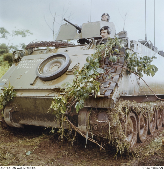 South Vietnam. c. 9 August 1967. Armoured personnel carrier (APC) Driver and Commander from A Squadron, 3rd Cavalry Regiment, Royal Australian Armoured Corps (RAAC), during Operation Ballarat.